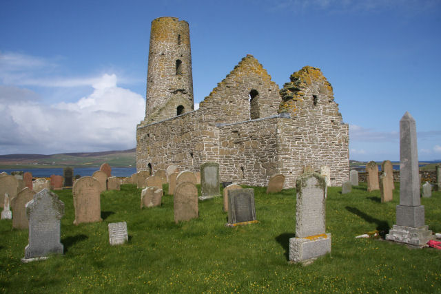 St Magnus Kirk and graveyard The number of gravestones indicate that Egilsay was at one time more heavily populated than it is currently. According to Hamish Haswell-Smith, there were 190 people living on the island in 1841; there are nowadays fewer than 40.